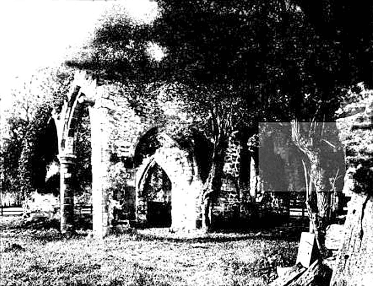 Part of the ruin of All Saints' parish church, Sockburn, County Durham, in 1894